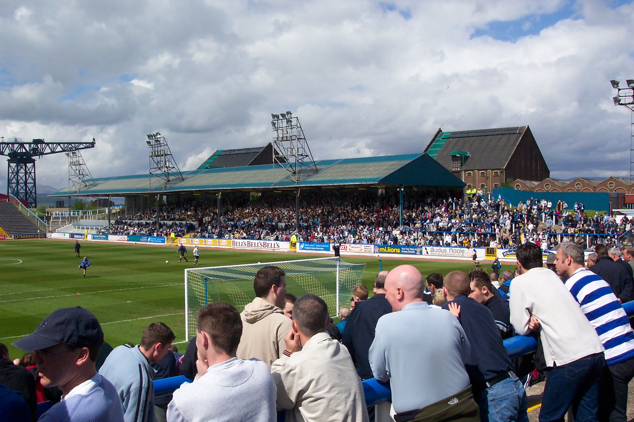 10th May 2003 during Morton's title deciding game against Peterhead